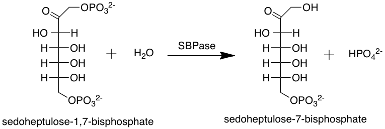 A diagram showing a reaction scheme for the reaction catalazyed by sedoheptulose-bisphosphatase